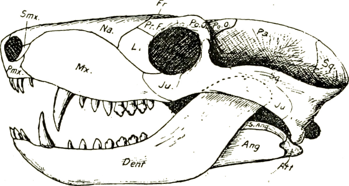 Title: The American Museum journal Year: c1900-(1918) (c190s) Authors: American Museum of Natural History Subjects: Natural history Publisher: New York : American Museum of Natural History Text Appearing Before Image: Skull of Bauria cynops Broom, about one-half natiu-al size. This is the most primitive of the very mammal-like reptiles belong- ing to the group of Cynodonts. The dentition, it will be observed, is like that of the mammal except in that the grinding teeth are simply little pegs not unlike those found in the armadillo Text Appearing After Image: South African fossil forms is that it was probably the devel- opment of the active Cynodonts that led to the development of the active reptiles such as Euparkeria. For possibly two million years the carnivorous mam- mal-like reptiles had an abundant supply of food in the form of the small Anomo- donts. In lower Tri- assic times the small- er Anomodonts seem to have become ex- tinct for some rea- son and the carnivo- rous forms had to obtain a new diet which was probably a little lizard-like animal called Pro- colophon, and pos- sibly other small reptiles of a similar type. It was possi- bly this new activity that gave rise to the Cynodonts. In upper Triassic times the Procolophons be- came extinct and the small Cynodonts were driven to at- tacking the more active types like Euparkeria. The rivalry between these forms resulted in the greatly increased activity of both, the active four-footed forms becoming the primitive mammals and those which run on their hind legs gave rise to the theropodous dinosaurs and the ancestral birds. The further evolution of the bird was doubtless the result of its taking to an arboreal habit and developing feathers. 346 Skull of Nythosaurus larvatus Owen, slightly reduced. This is one of the most mammal-like of the reptiles belonging to the Cynodonts. Were it not for the composite character of the lower jaw it might readily be regarded as a mammal